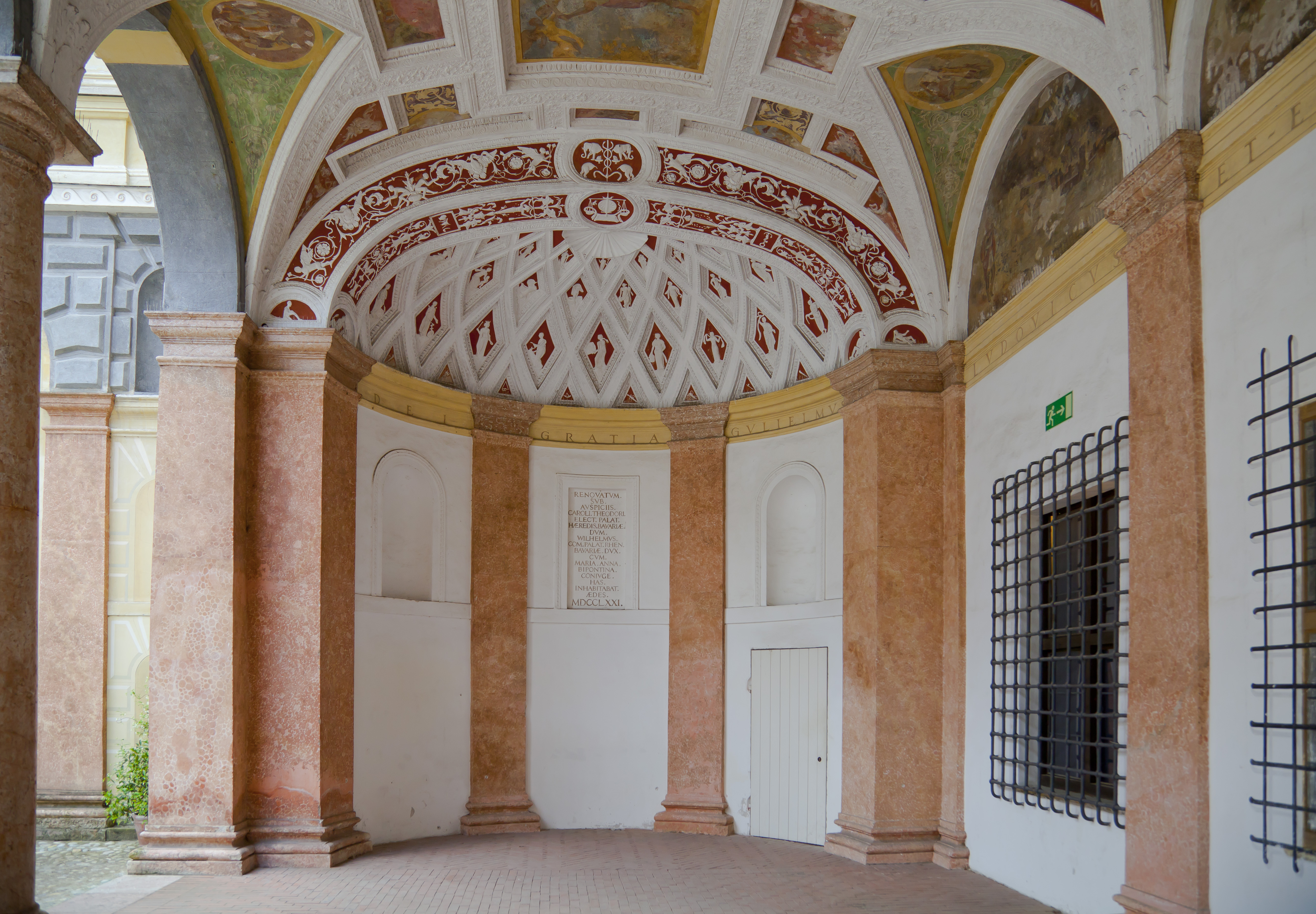 Stadtresidenz, Landshut, Germany